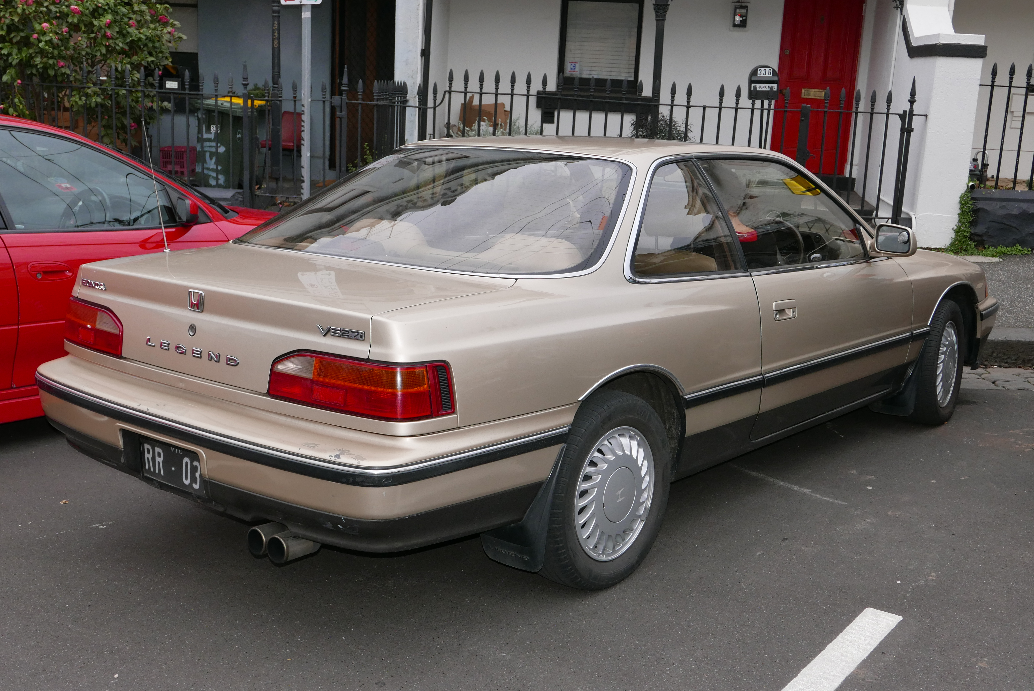 1990 Honda Legend (KA3) coupe. Photographed in Fitzroy, Victoria, Australia. Vehicle registration enquiry results Jurisdiction Victoria Registration RR031 Chassis code JHMKA32500C200094 Engine code C27A12800047 Compliance date 1990-03 Year of manufacture 1990